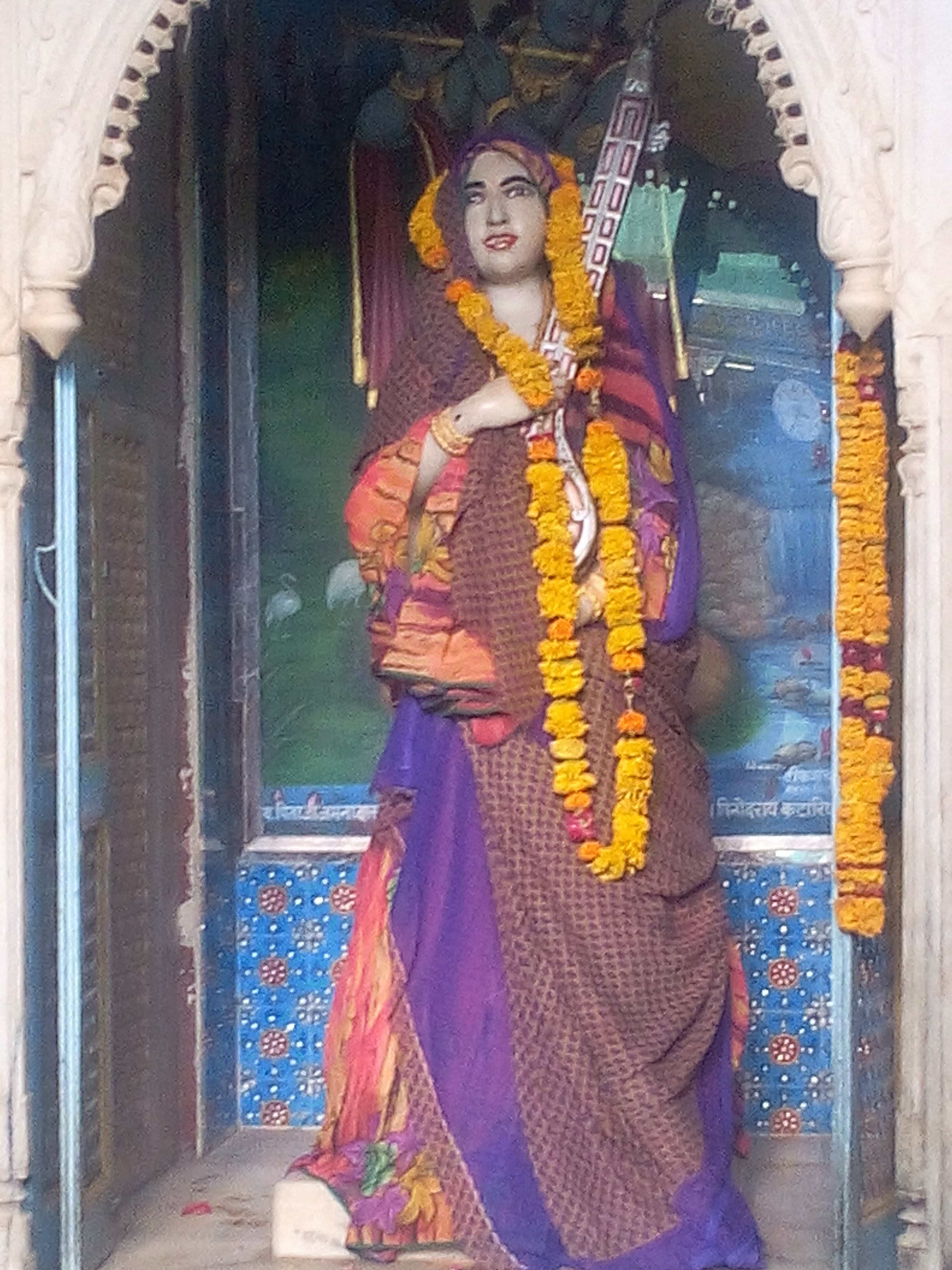 It is about idol of meera bai at Merta city temple,Rajasthan,India.